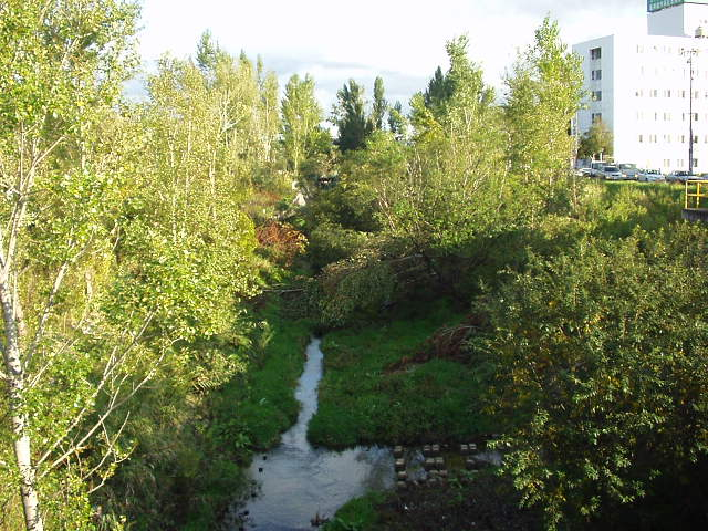 Kotoni River. The border of North ward and West ward of Sapporo, Hokkaidō prefecture, Japan. Toward southeast from Shin'kawa Kami-no Bridge.